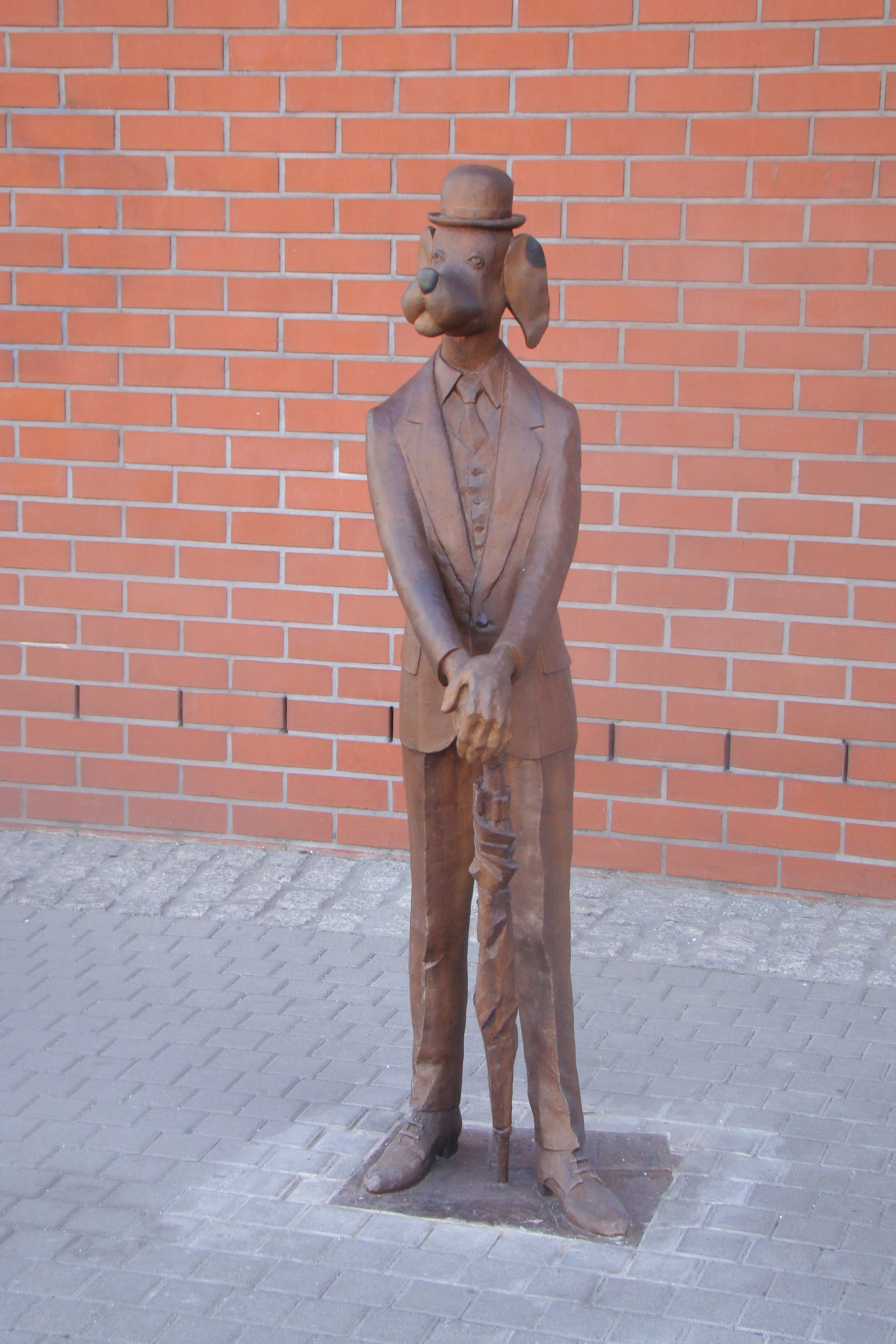 Ferdynand Wspaniały